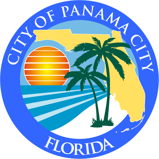 The official seal of Panama City, Florida.